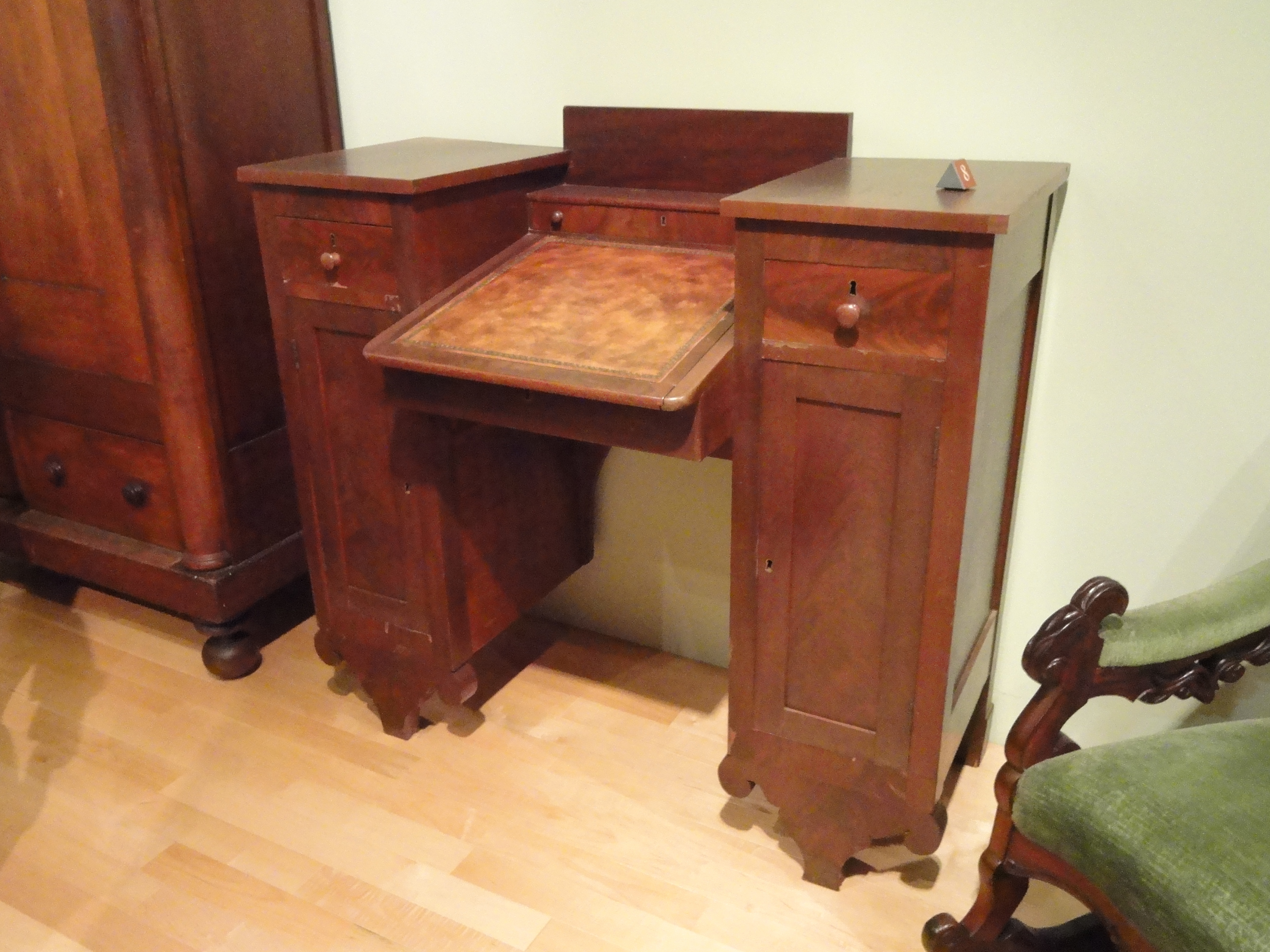 Furniture exhibit in the North Carolina Museum of History, Raleigh, North Carolina, USA.